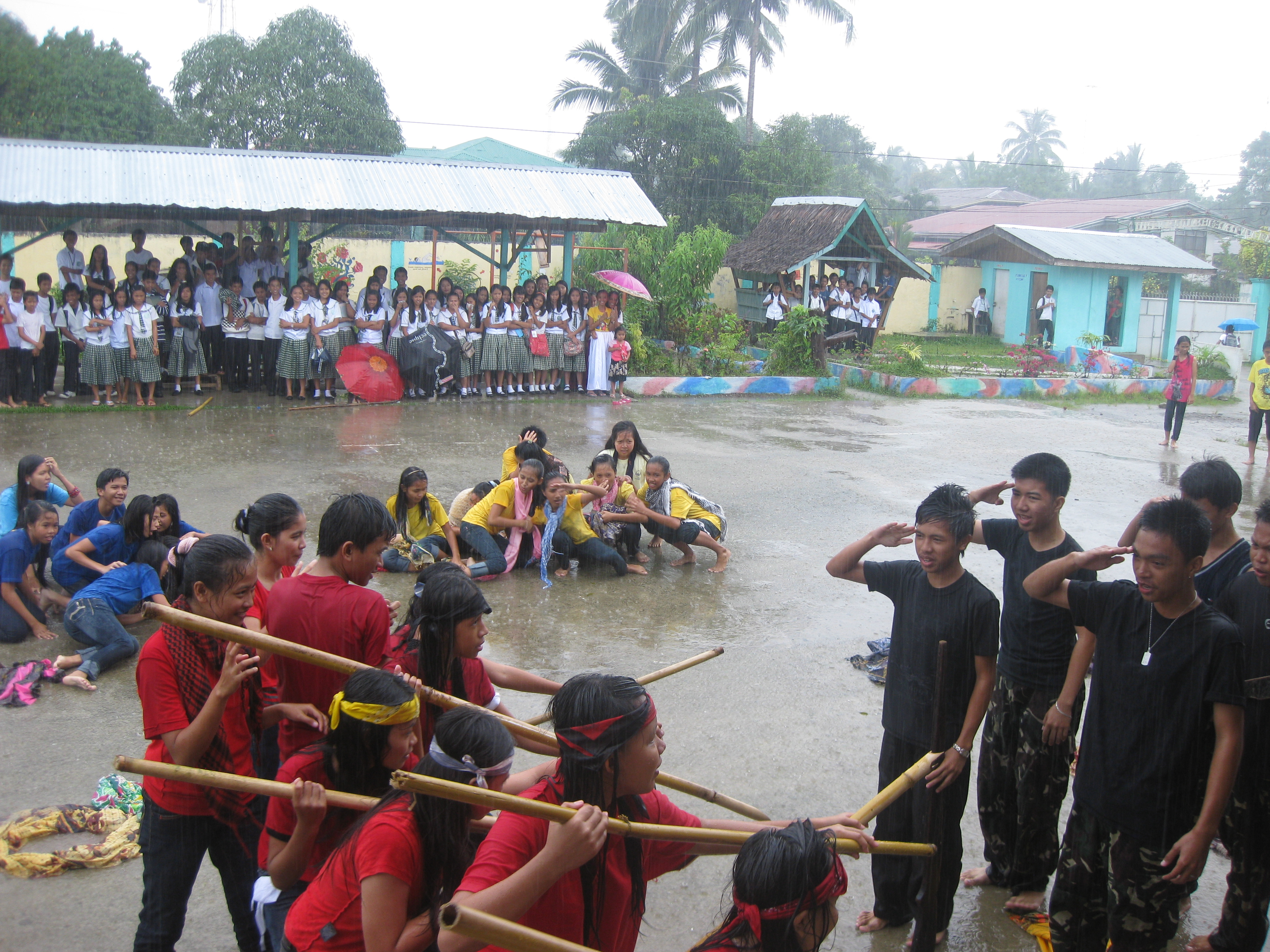 Students during the celebration of "Buwan ng Wika"